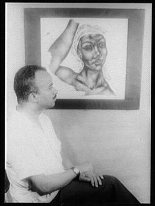 Title: Portrait of Eldzier Cortor Abstract: 1 photographic print : gelatin silver.